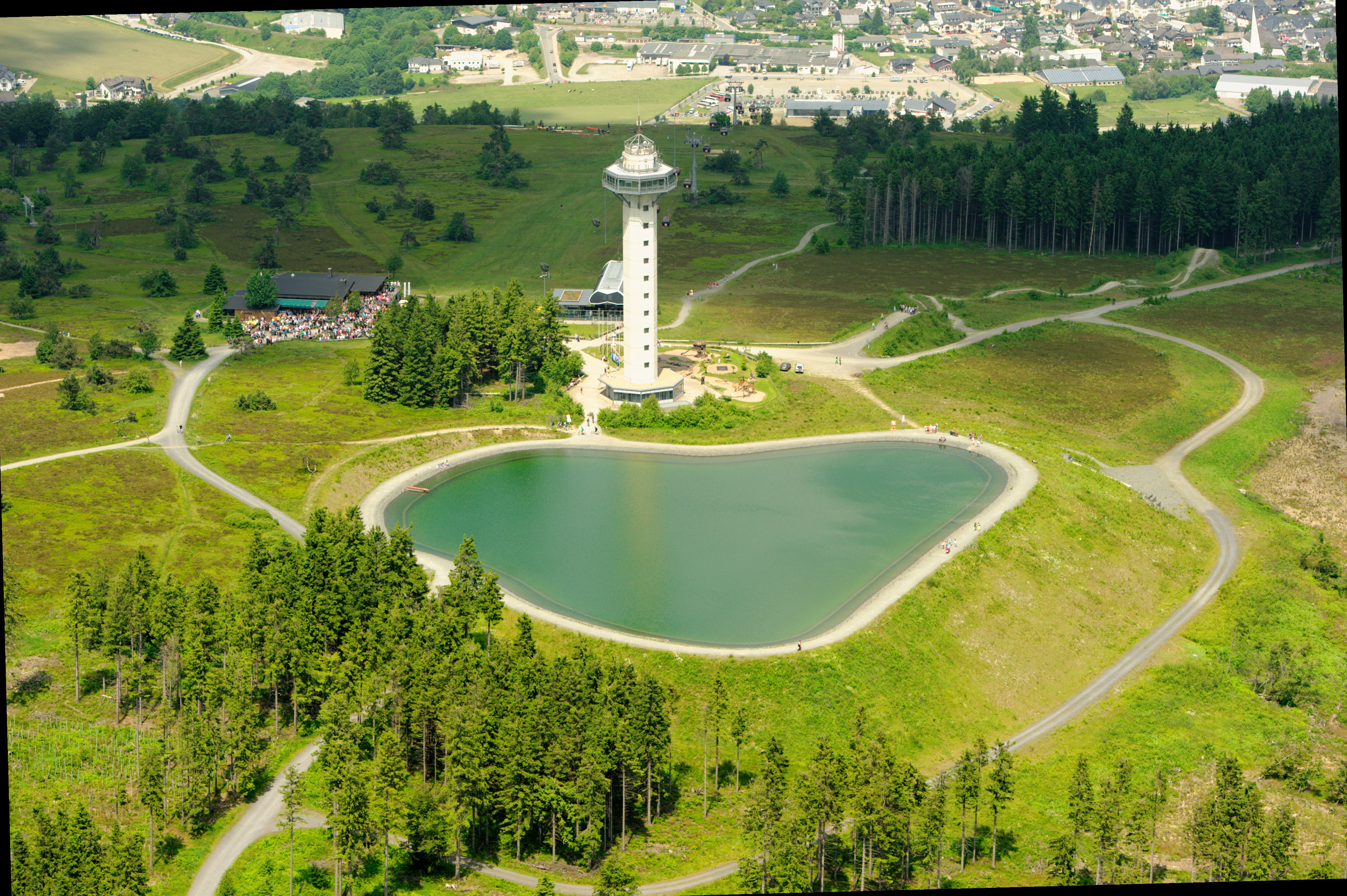 Fotoflug Sauerland-Ost: Hochheideturm auf dem Ettelsberg. The making of this document was supported by the Community-Budget of Wikimedia Germany.